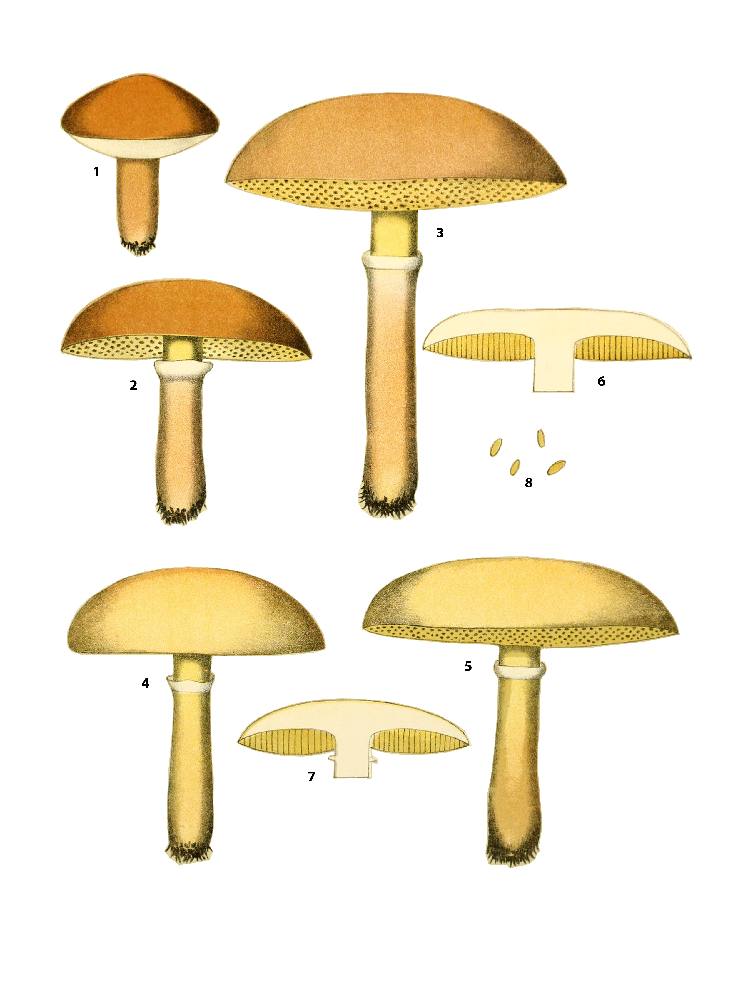 Drawing of Boletus clintonianus Peck (=Suillus clintonianus)